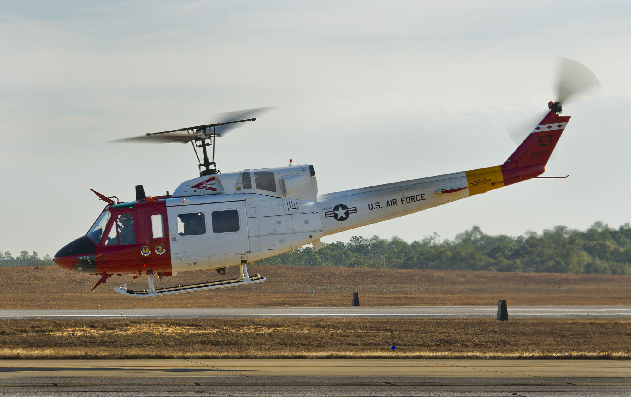 A U.S. Air Force Bell UH-1N-BF Huey (s/n 69-6617) from the 413th Flight Test Squadron lifts off from the flightline at Duke Field, Florida (USA). The 413th FLTS provides developmental testing to rotary wing aircraft such as the UH-1, CV-22 and the C-130.